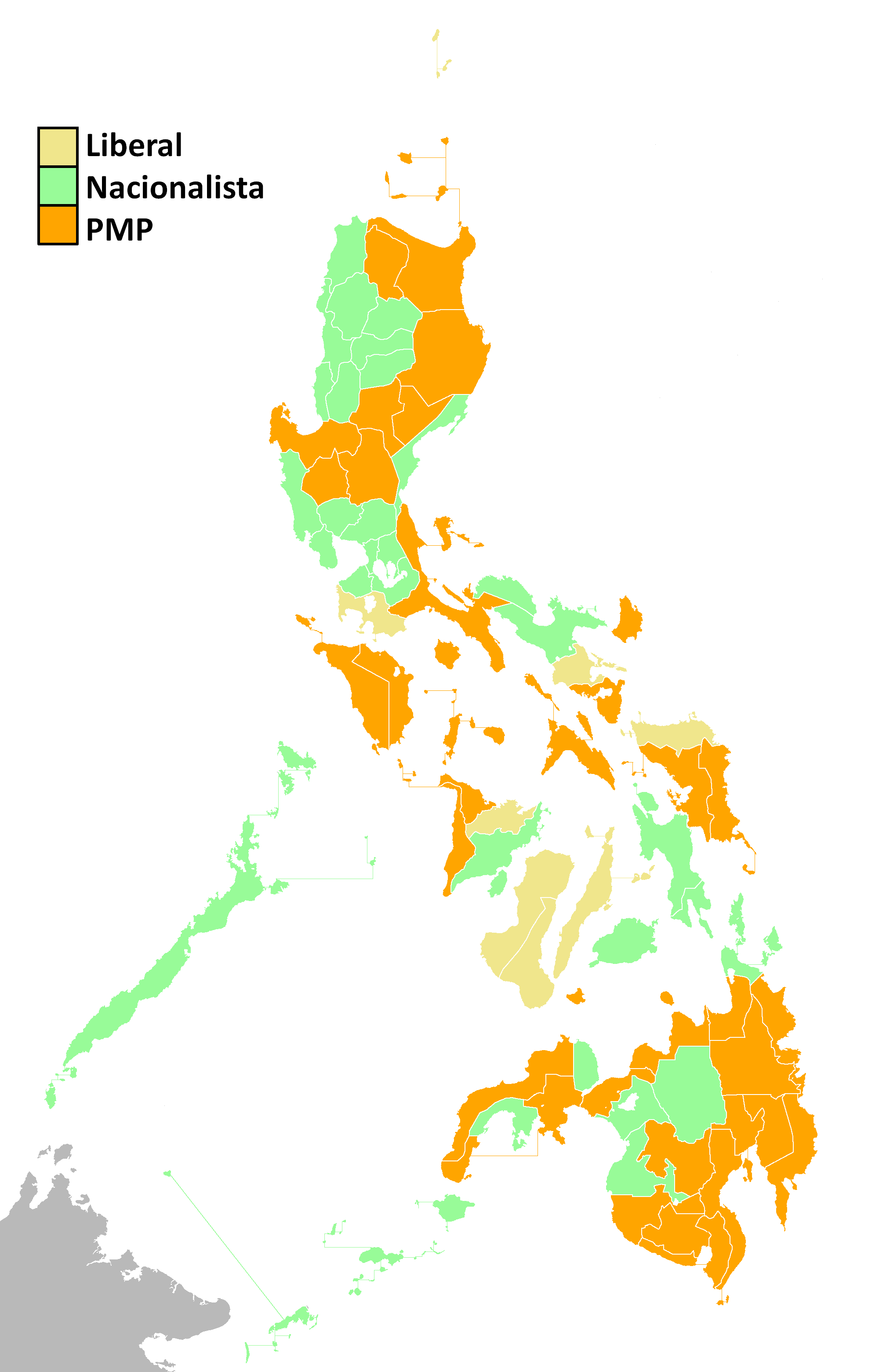 Result of the Philippine Senate election for each ticket in the provinces. Tagalog: Resulta ng halalan para sa Senado ng Pilipinas ng mga kowalisyon sa bawat lalawigan.